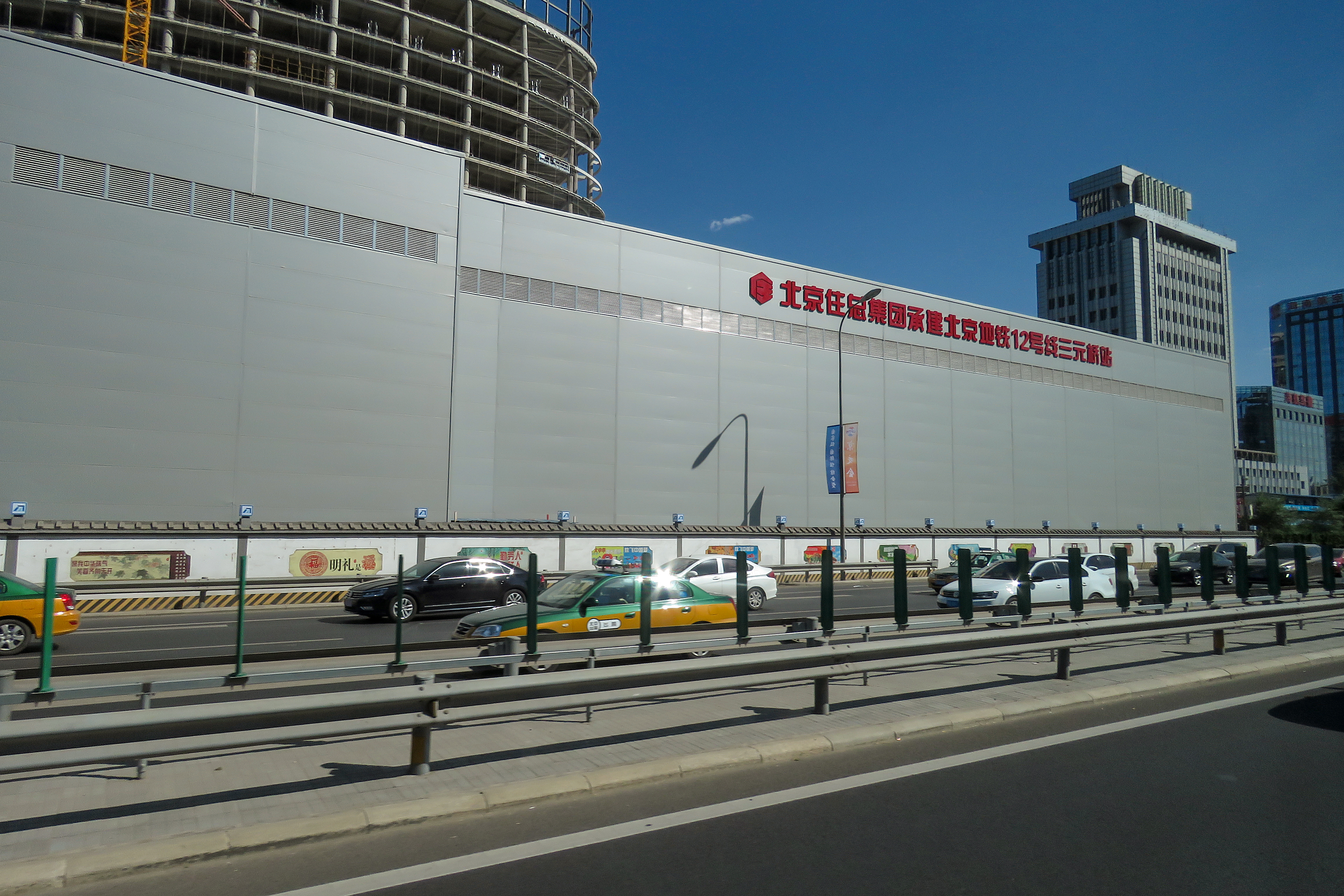 Taken from an inbound 850 Express bus after a plane spotting. I'm sure that this "North 3rd Ring Road Line" will generate a pretty ridership!